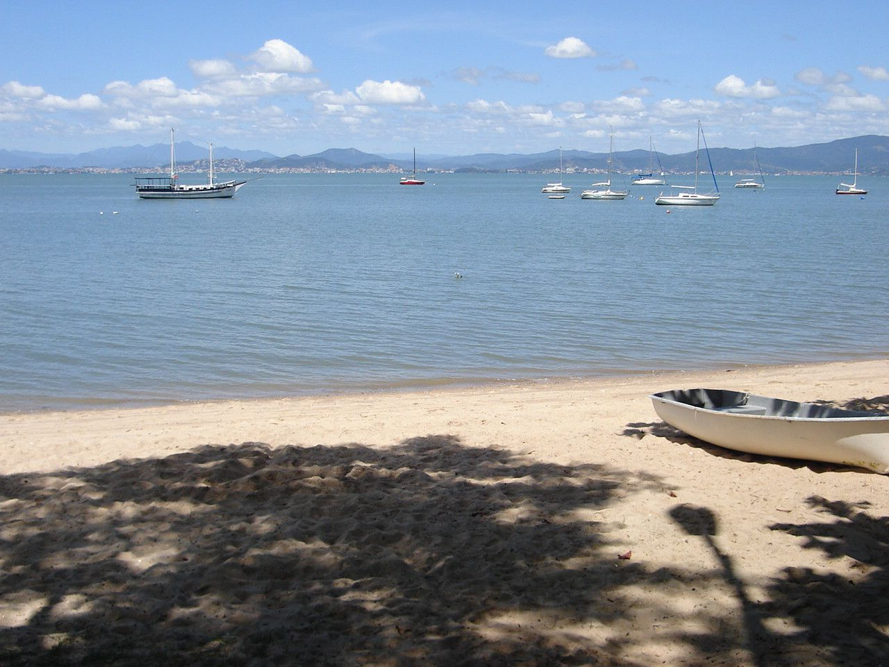 Santo Antônio de Lisboa beach, Florianópolis, Brazil.